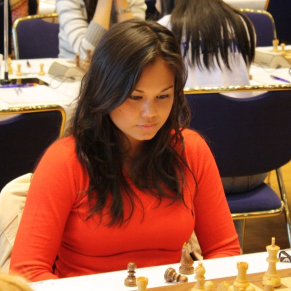 Arianne Caoili, Australian chess player.